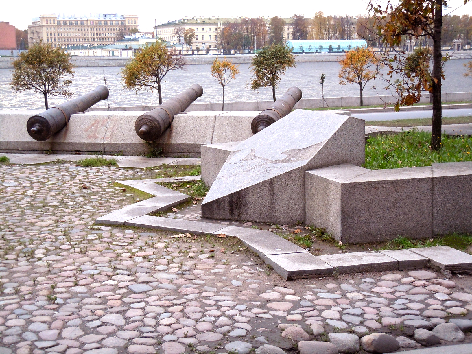 Memorial Nyenschantz. Saint Petersburg. On June 15, 2000 a monument was opened on the site of the fortress, at the mouth of the Okhta river to a design by V. A. Reppo.